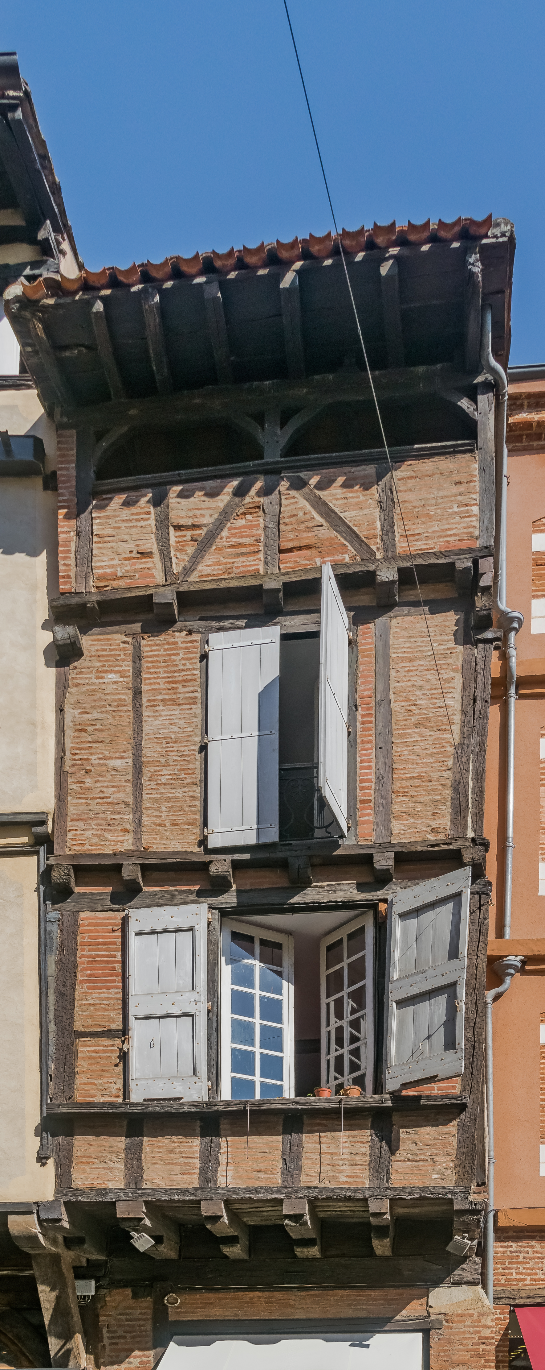 Building at 10 rue Saint-Julien in Albi, Tarn, France .